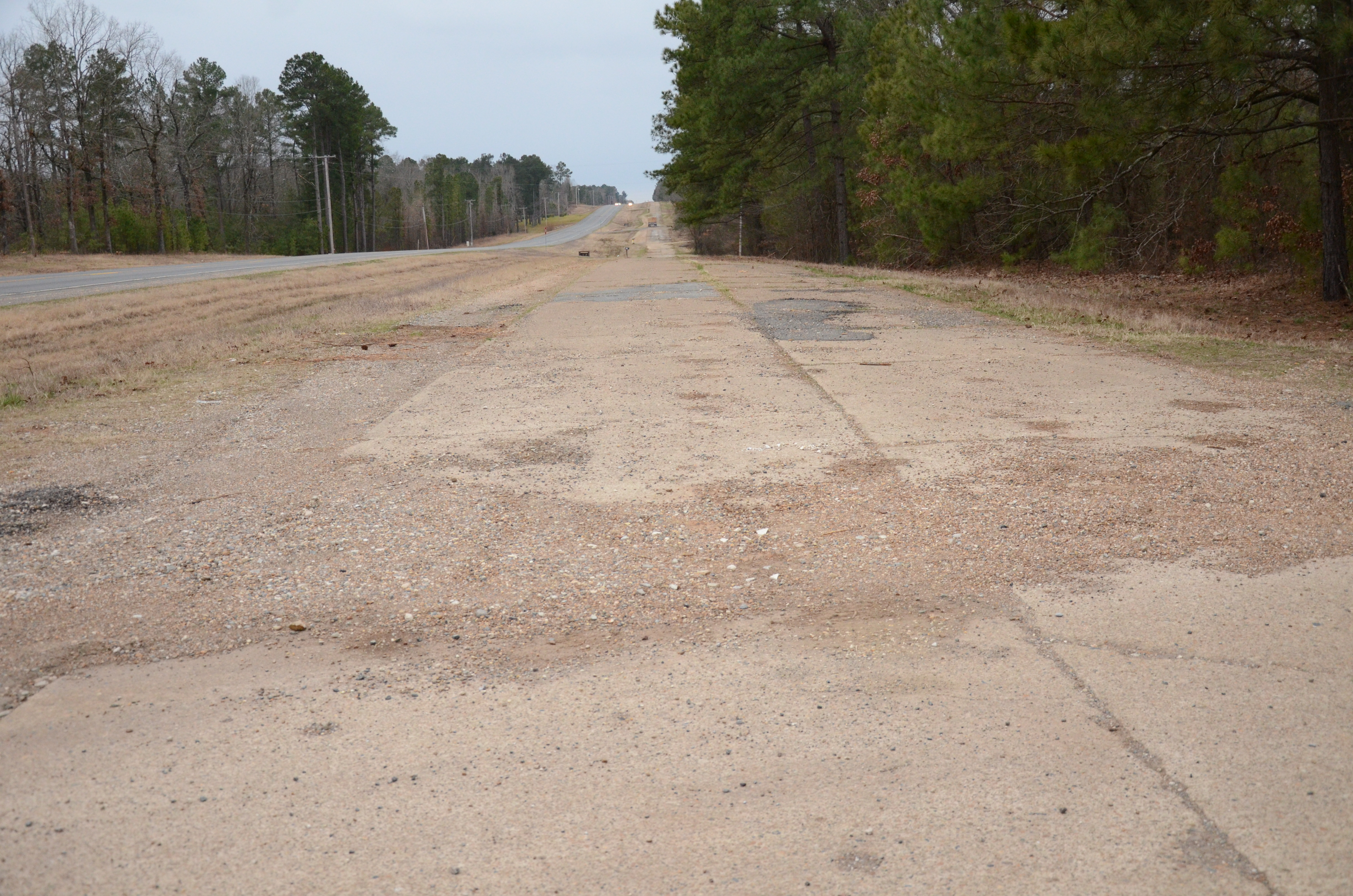 Old Arkansas 51, Curtis to Gum Springs